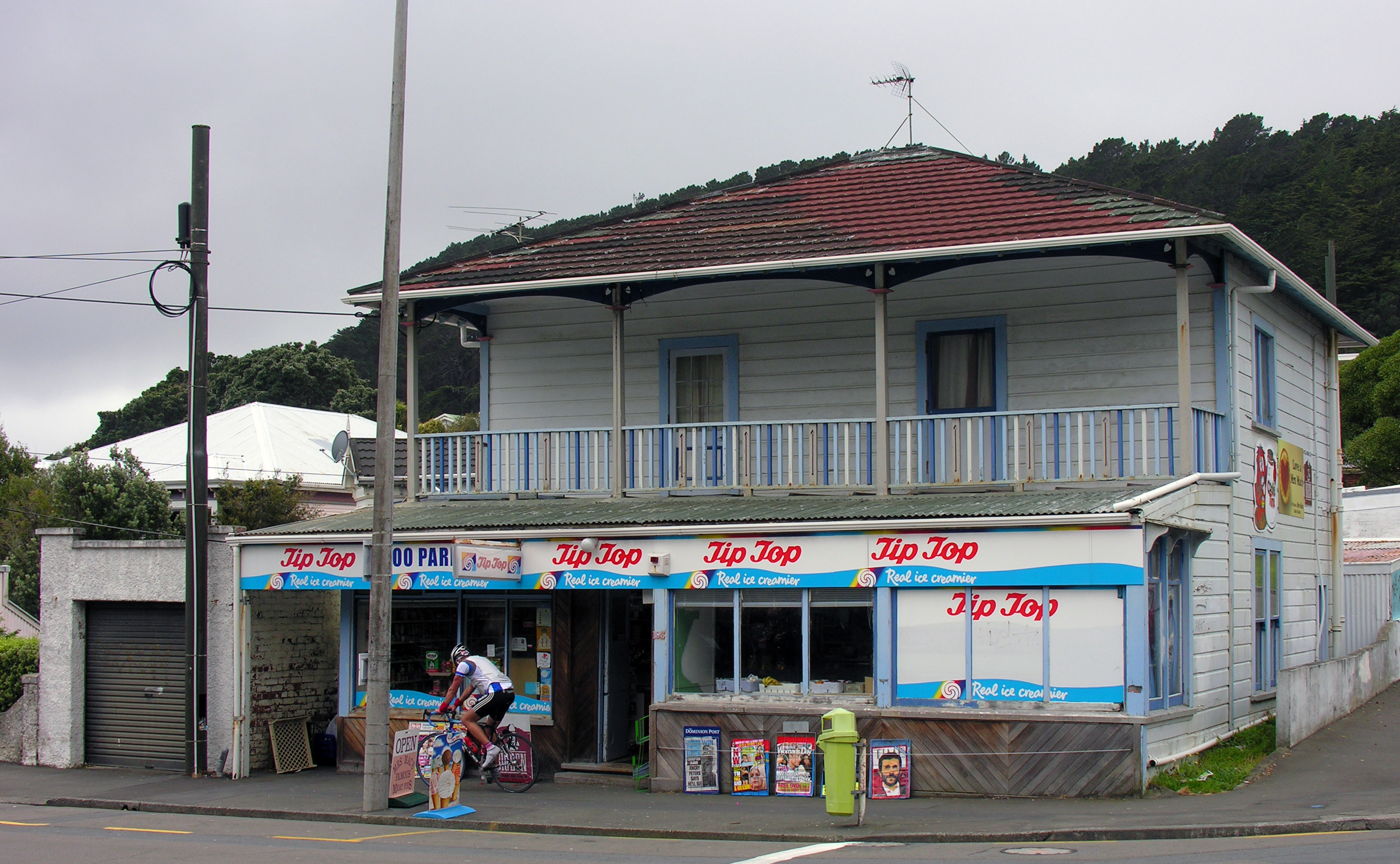 Zoo Park Dairy. Daniell St, Newtown, Wellington, New Zealand